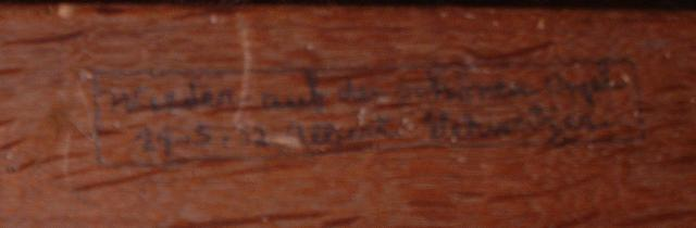 Albert Schweitzer left his signature in the musicstandard of the Van hagerbeer Orgel (1952)